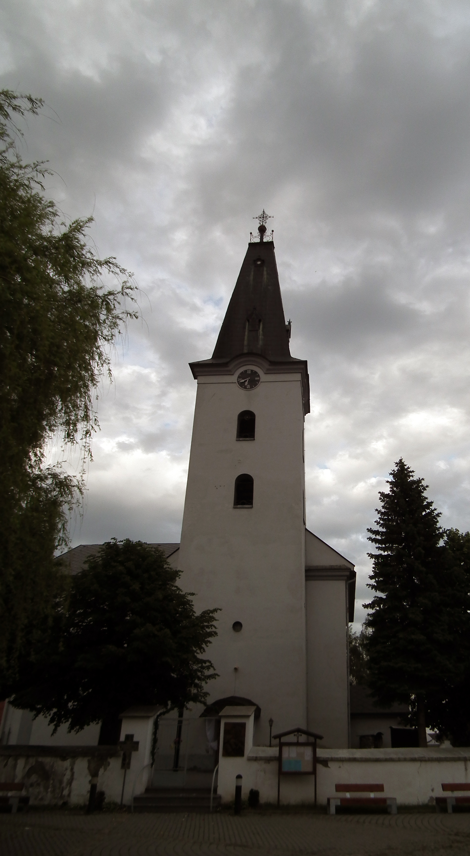 Church, Smižany, Slovakia.